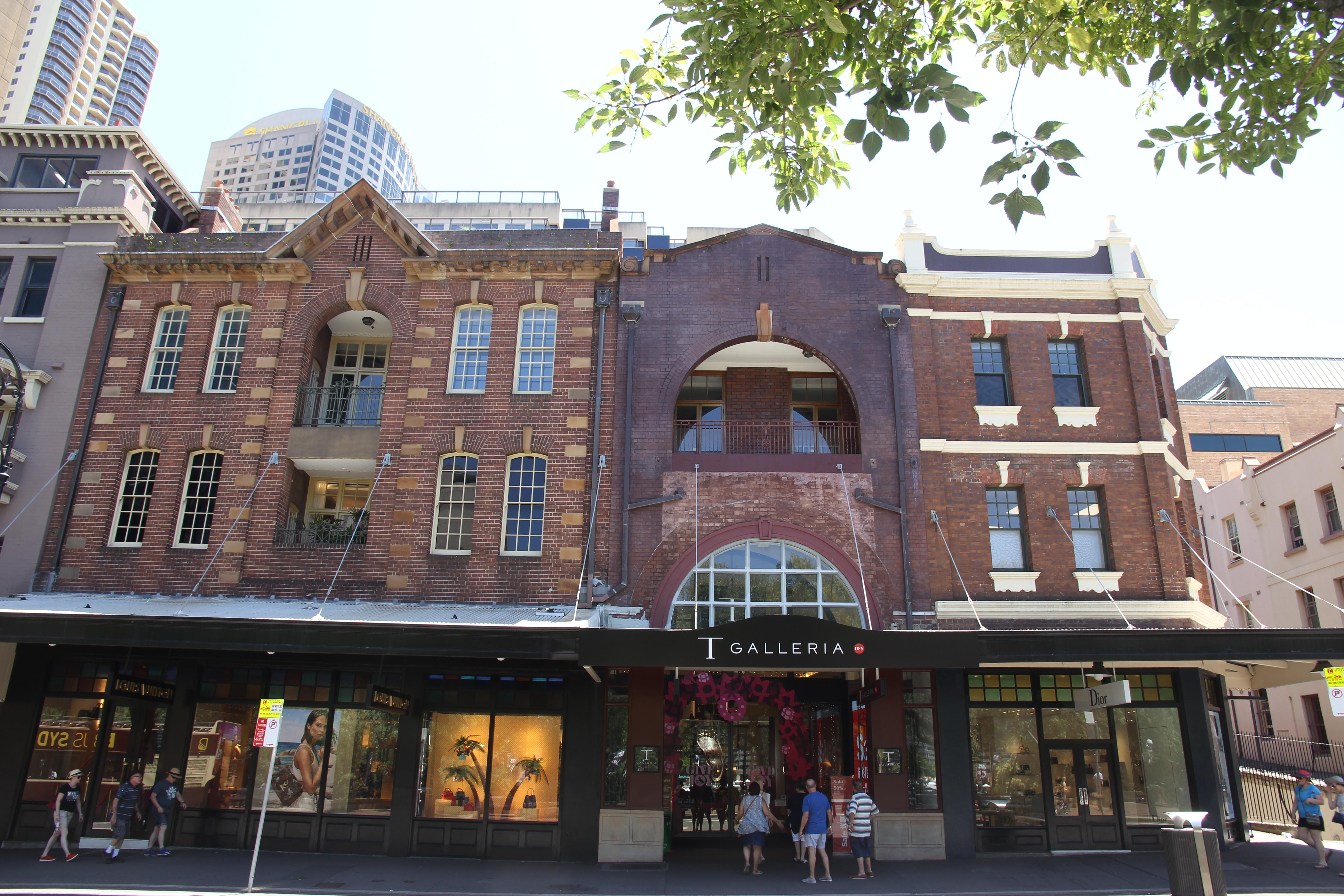 T Galleria DFS Sydney, located at 145, 147, 149-151, and 153-155 George Street, The Rocks, in the City of Sydney, New South Wales, Australia